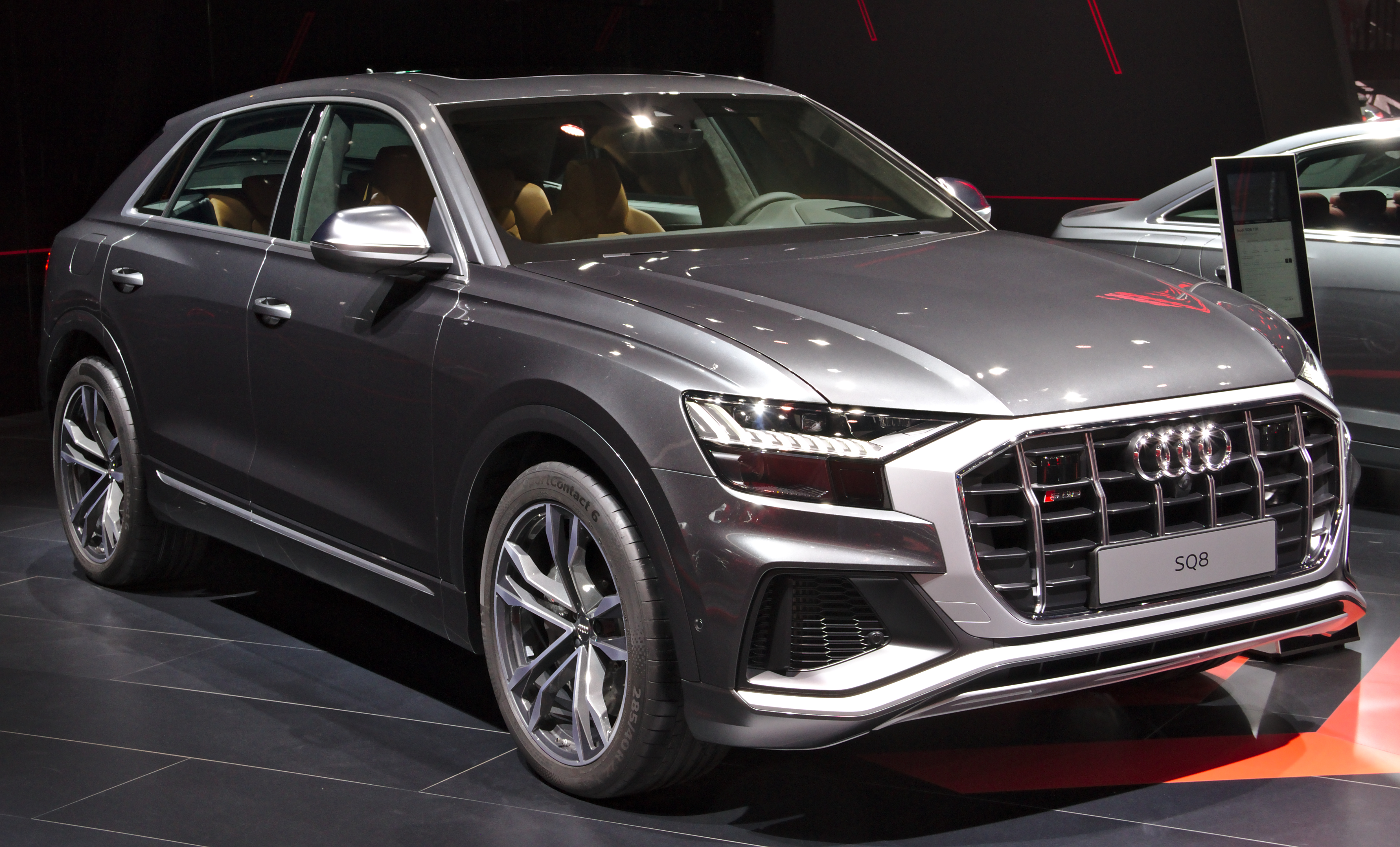 Audi_SQ8 at IAA 2019